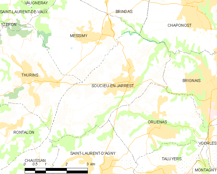 Map of French municipality